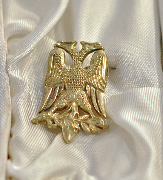 Albanian "Eagle Gold Medal" also know as "The Golden Medal of the Eagle"